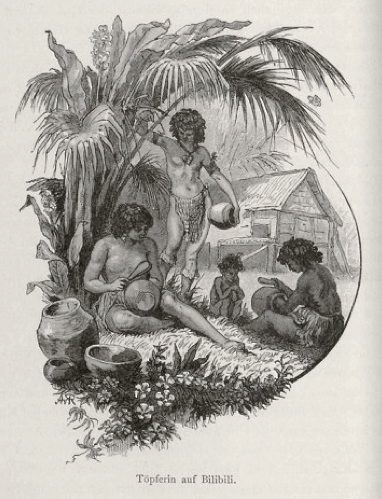 Finsch, Otto (1888) Samoafahrten. Reisen im Kaiser Wilhelms-Land und Englisch-Neu-Guinea in den Jahren 1884 u. 1885 an Bord des Deutschen Dampfers "Samoa", Ferdinand Hirt & Sohn, Leipzig, p. 82 Retrieved on 26 May 2013.